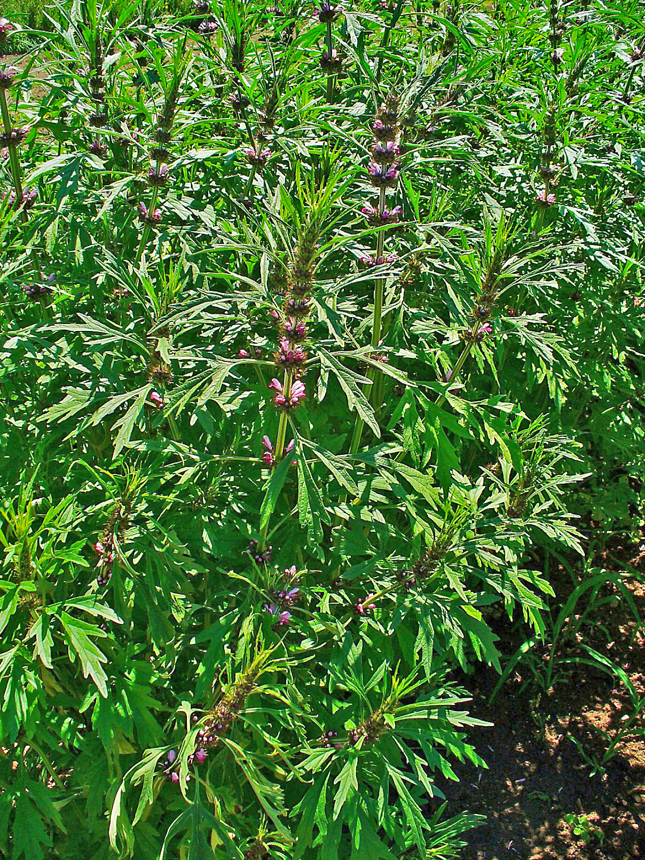 Leonurus sibiricus, Lamiaceae, Siberian Motherwort, habitus. The plant is used in homeopathy as remedy: Leonurus sibiricus (Leon-s.)